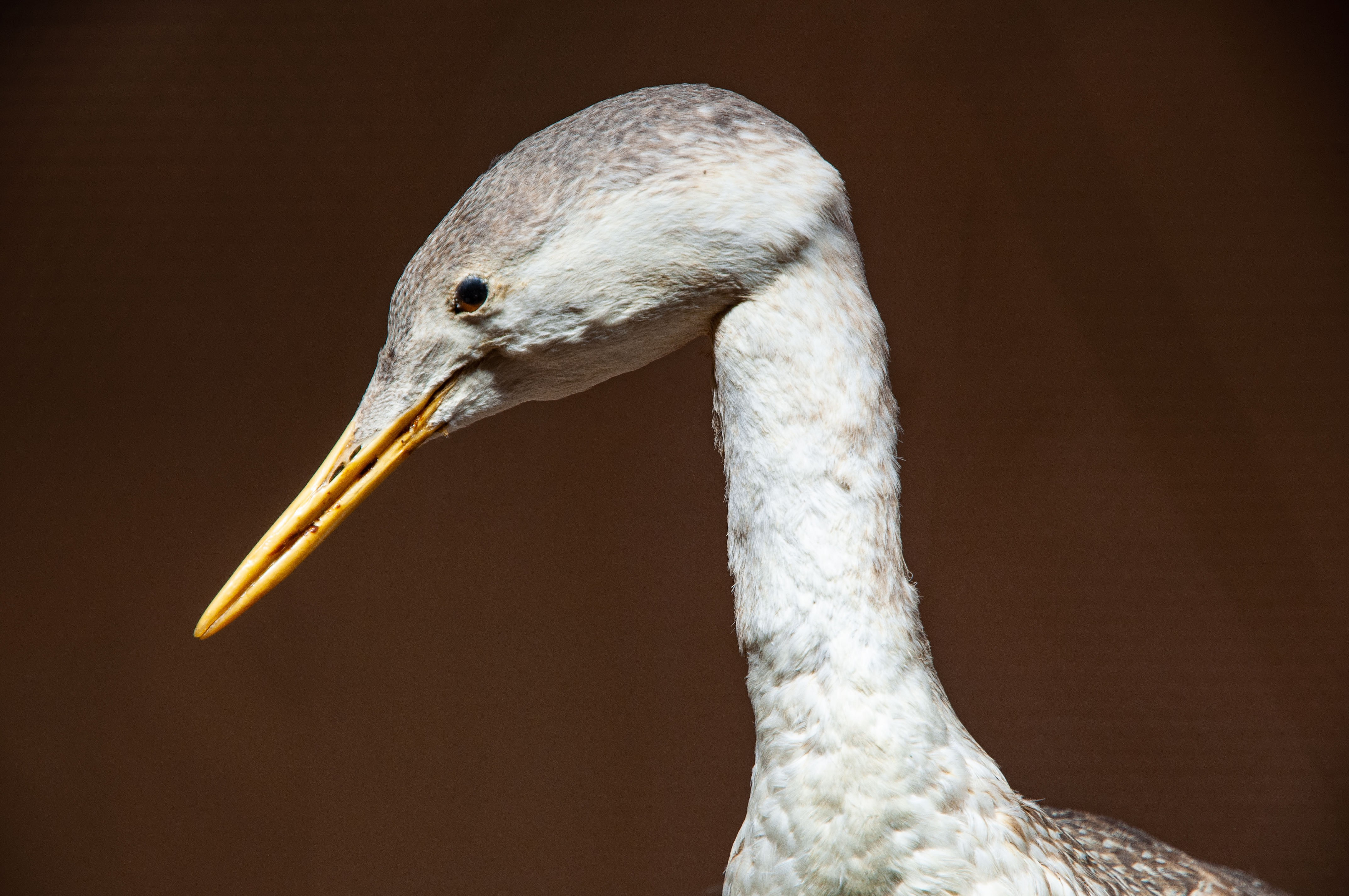 Naturalized Arctic diving on display in the Whale Room of the Oceanographic Museum of Monaco.